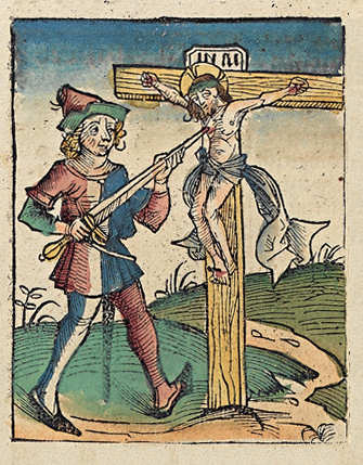 Woodcut from the Nuremberg Chronicle